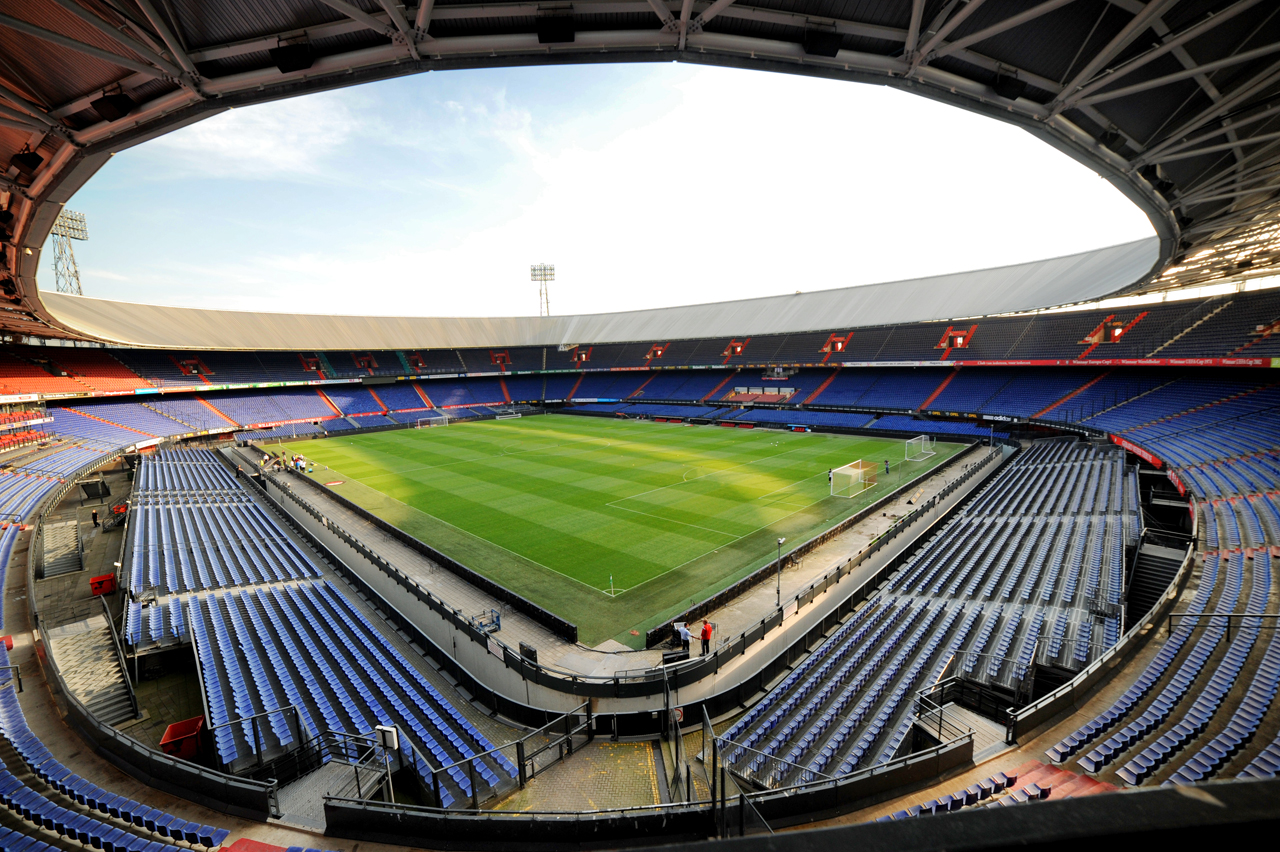 Stadion Feijenoord (De Kuip) in Rotterdam, the Netherlands